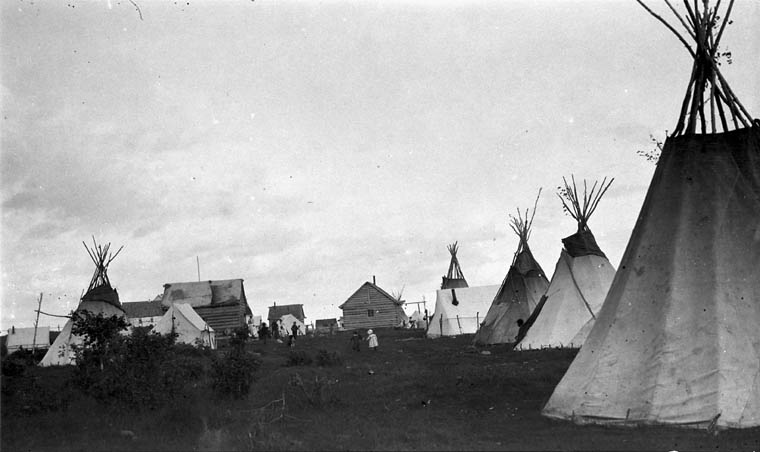 "La Loche tepees" was taken on June 30 or July 1, 1918 in La Loche, Saskatchewan by the Franklin Kitto Expedition. Kitto's description: "Arriving at the mission we found that a couple of priests from Lac La Plonge were here conducting a series of services extending over a period of two weeks, and the Indians from the whole country-side to the extent of two or three hundred were gathered in attendance. Row after row of tepees lined the beach or clustered about the few wooden buildings of the post (Revillon Freres). The entire families had come from far and near bringing all their worldly possessions with them and the place was alive with children and dogs. A storm broke shortly after our arrival compelling us to make camp and to remain with this community until the evening of the next day."